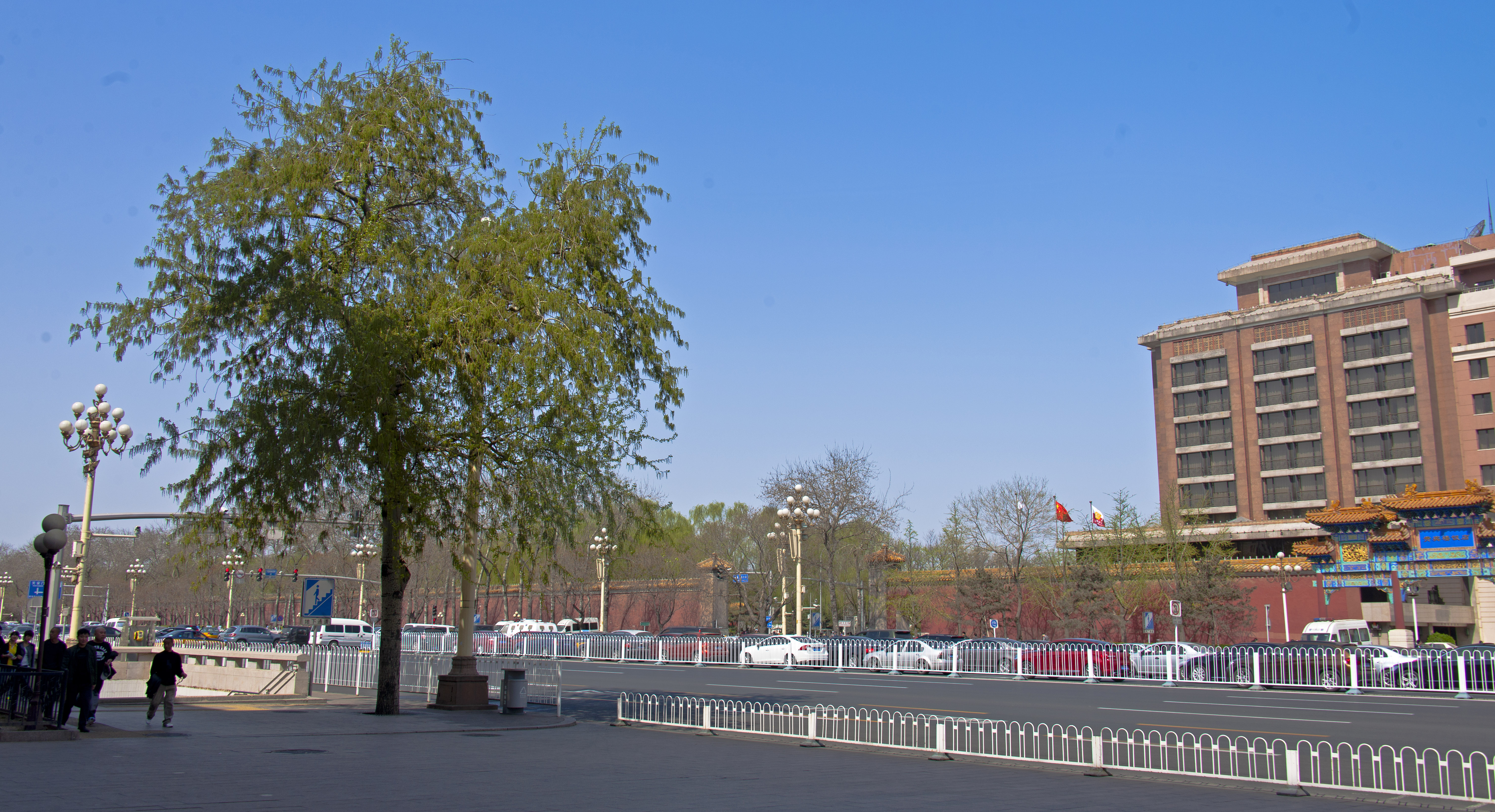 Intersection two blocks east of Tiananmen Square, in front of the Grand Beijing Hotel, where a man once stopped traffic on a late spring day.